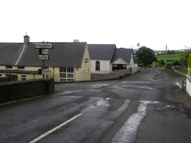 Road at Kanes Hill by Carnalbanagh, County Antrim